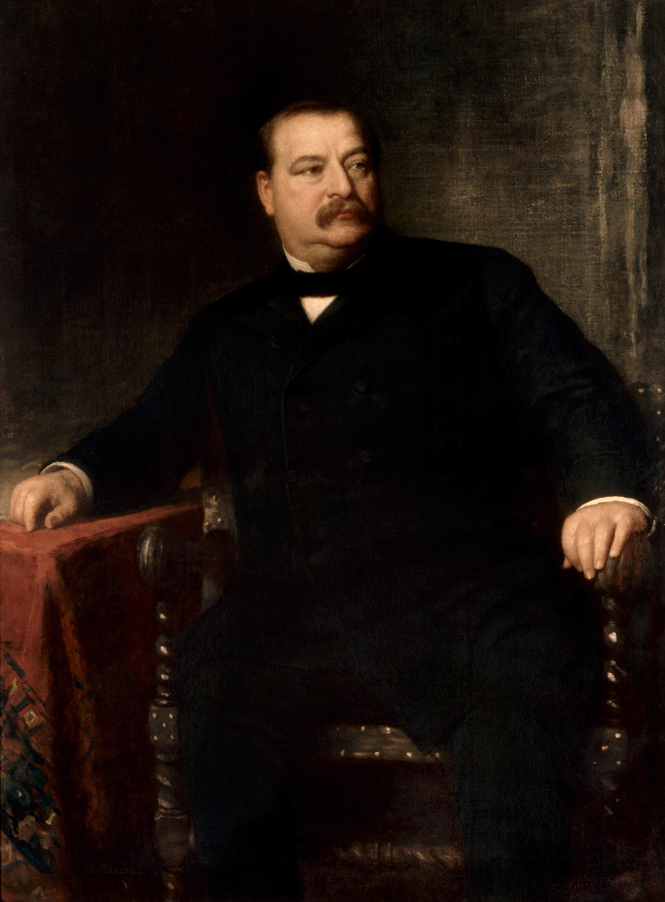 Official portrait of U.S. President Grover Cleveland